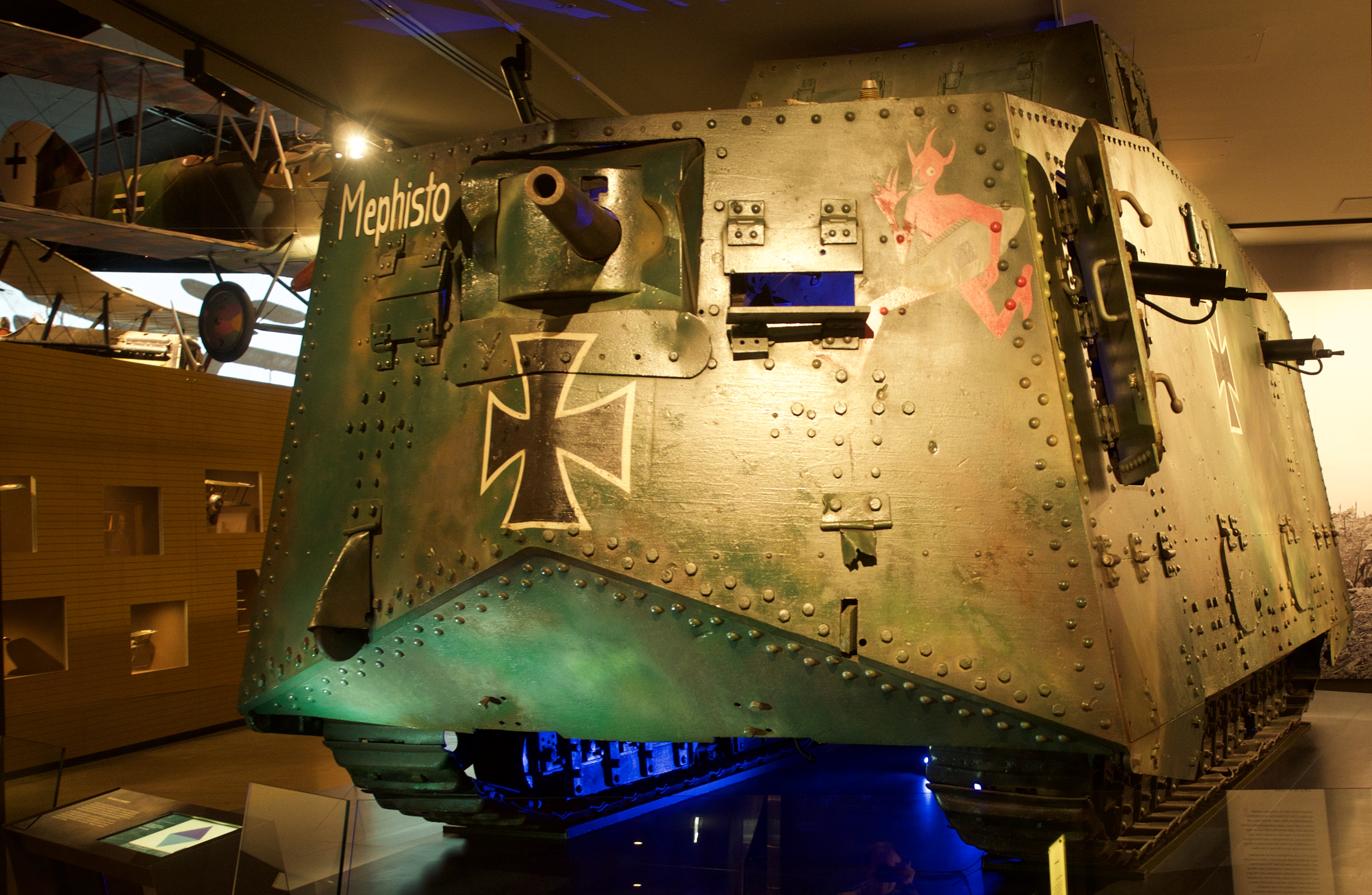 Front armour and main gun of German A7V tank "Mephisto".